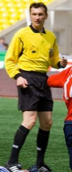 Valentin Ivanov in match between PFC CSKA Moscow and FC Saturn Ramenskoe